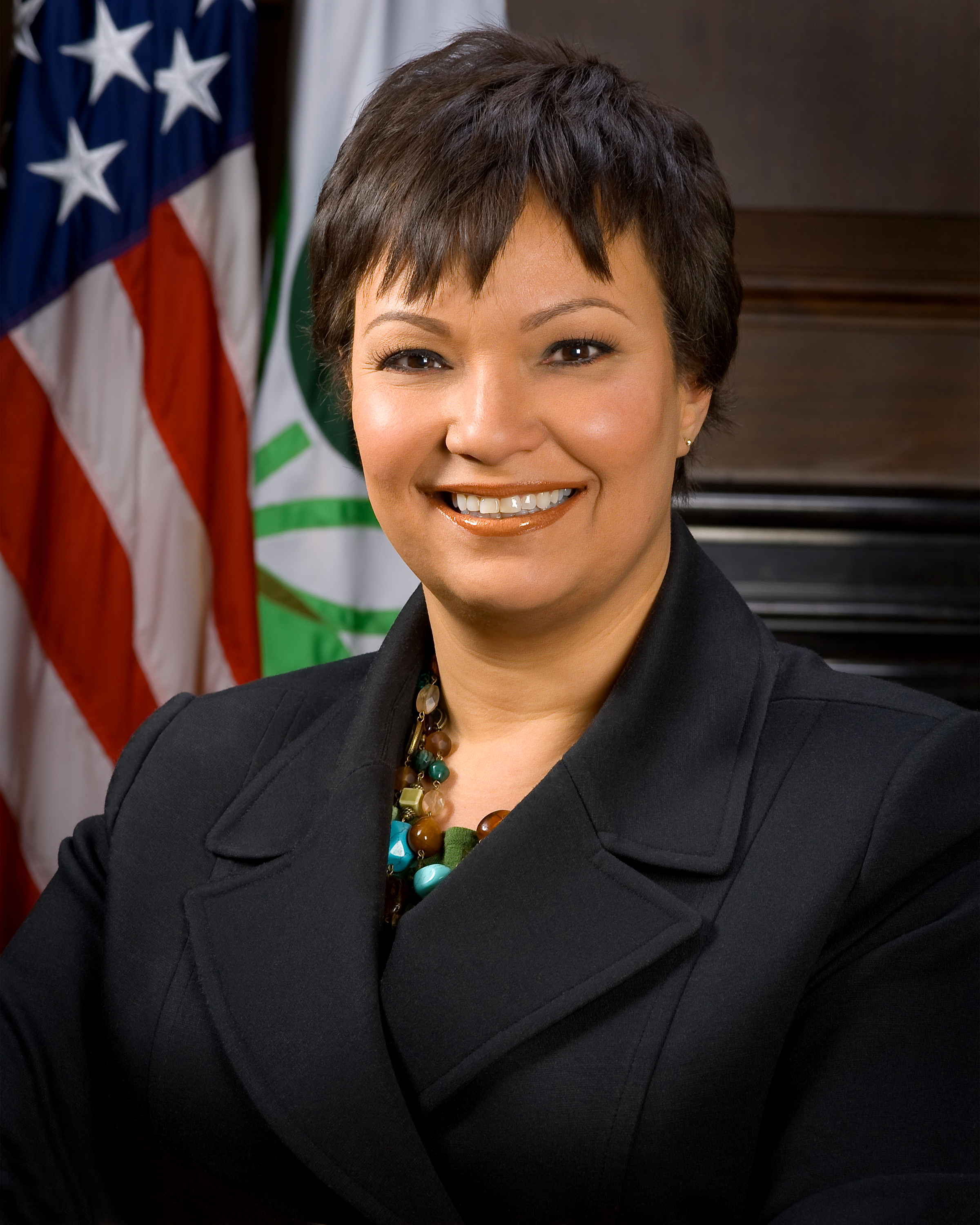 Official portrait of Environmental Protection Agency administrator Lisa P. Jackson